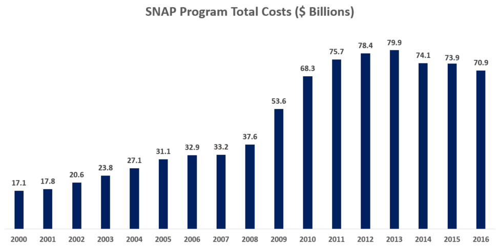 SNAP Program Benefits Paid 2005-2012 Understanding the chart This chart indicates the amounts paid to recipients of the U.S. Supplemental Nutrition Assistance Program (SNAP), formerly referred to as Food Stamps. Data is available from the USDA website.[1] The compound annual growth rate was 19.7% from 2007 to 2012, calculated by author of the chart. The U.S. population grew about 1% annually on average during the period and participation increased 12% annually during the period.